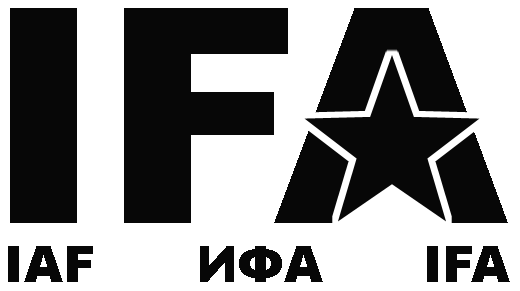 logo of International of Anarchist Federations